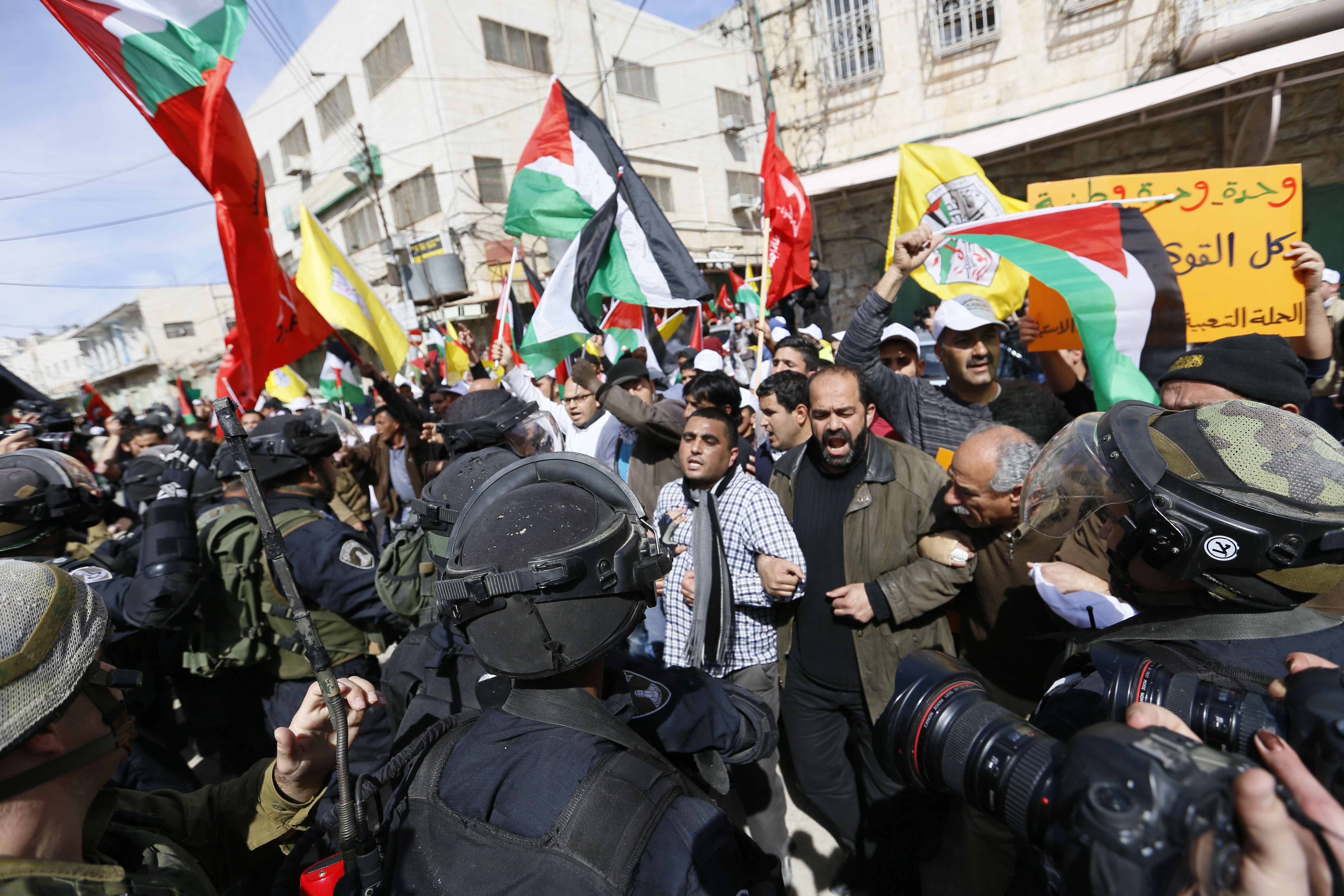 Israeli Army and Border Police troops stop Palestinians from entering Al-Shuhada' St. during the demonstration during the 20th anniversary of closing Al-Shuhada (Martyr's) St. in the old city of Hebron. Where it's been closed since 1994 after the Massacre of Hebron where 29 Palestinian where killed by an Israeli man.